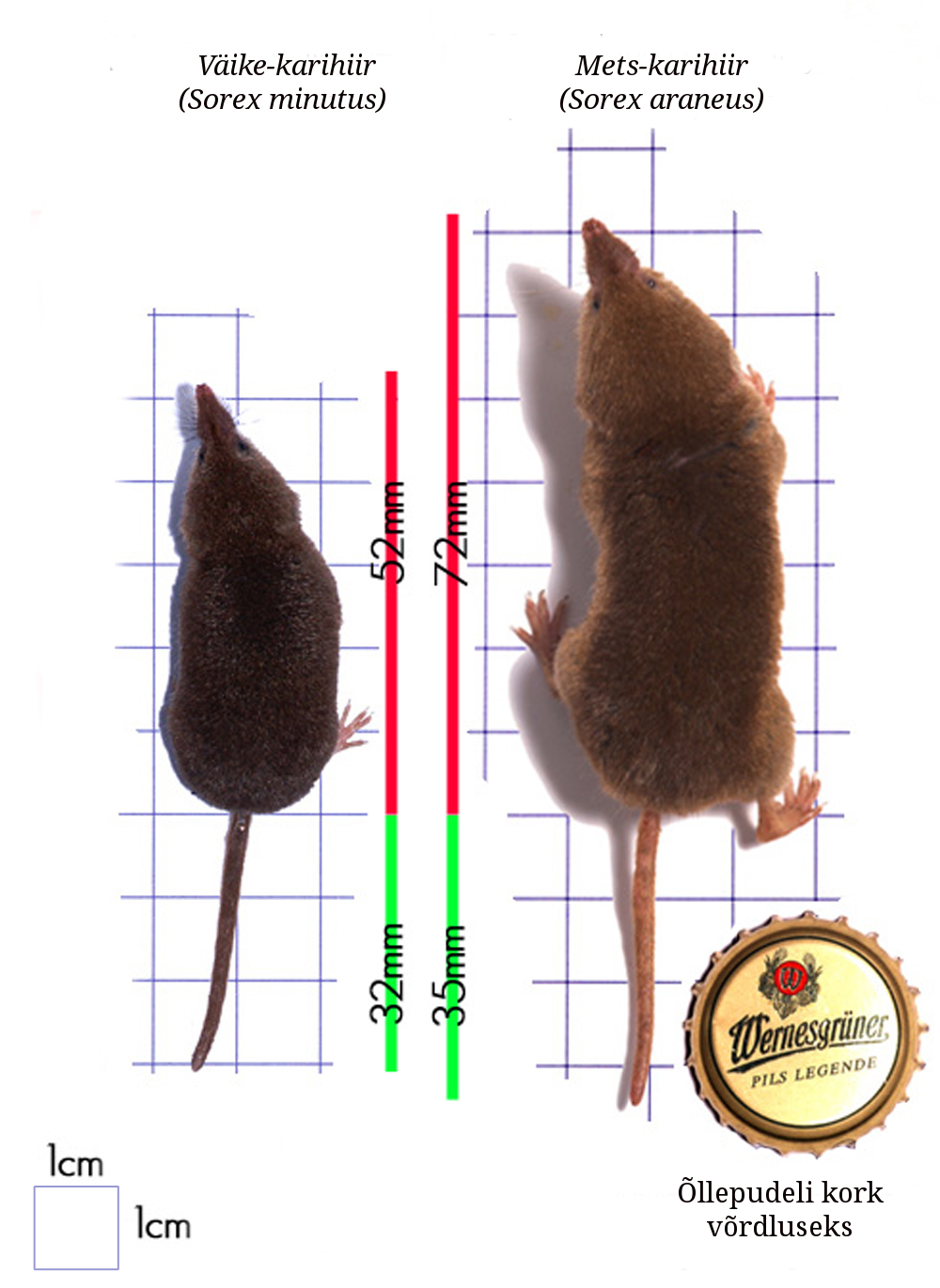 Size comparison between Common and Pygmy Shrew in Estonain